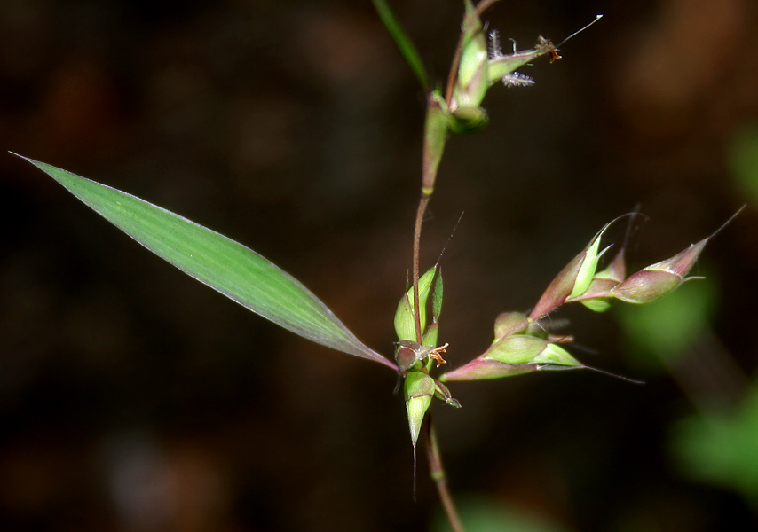 Mauritian grass Apluda mutica at Ananthagiri Hills, in Rangareddy district of Andhra Pradesh, India.